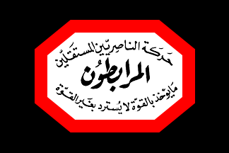 Flag of mourabitoun